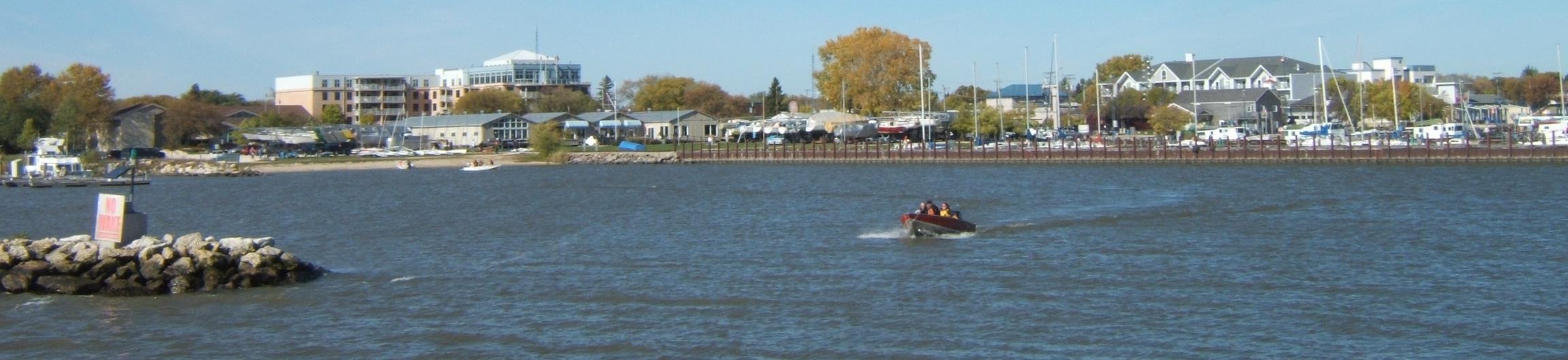 This photo was taken by me in October of 2008, which I uploaded to Wikipedia as a bigger file, however I have made a panorama version of this photo which I made and uploaded on May 12th, 2013.